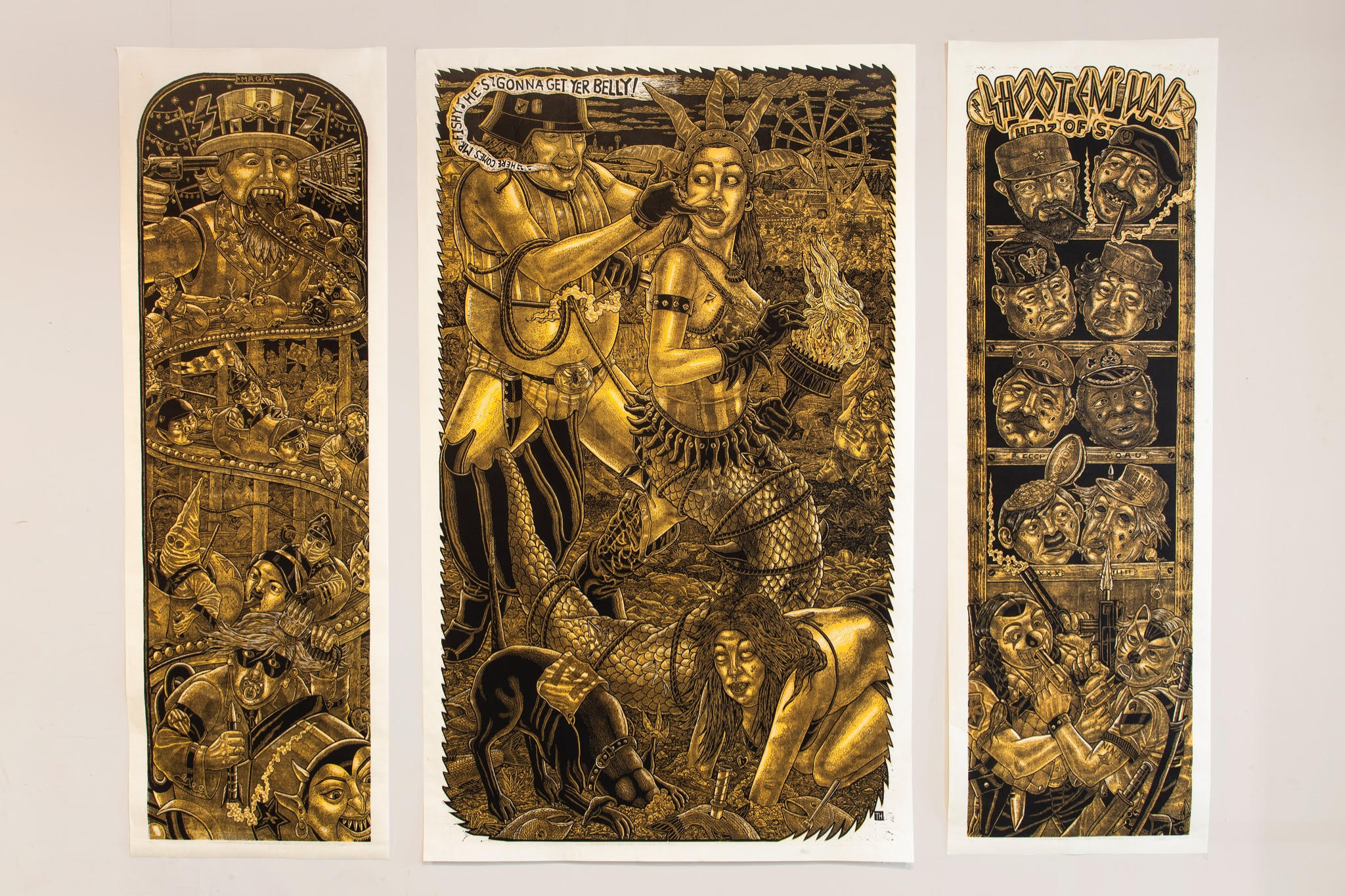 "Electric Baloneyland" woodcut print by Tom Huck